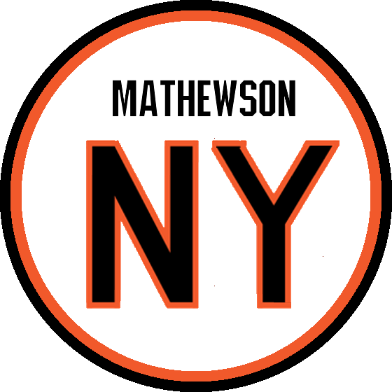 SF Giants retired number placard as shown inside stadium